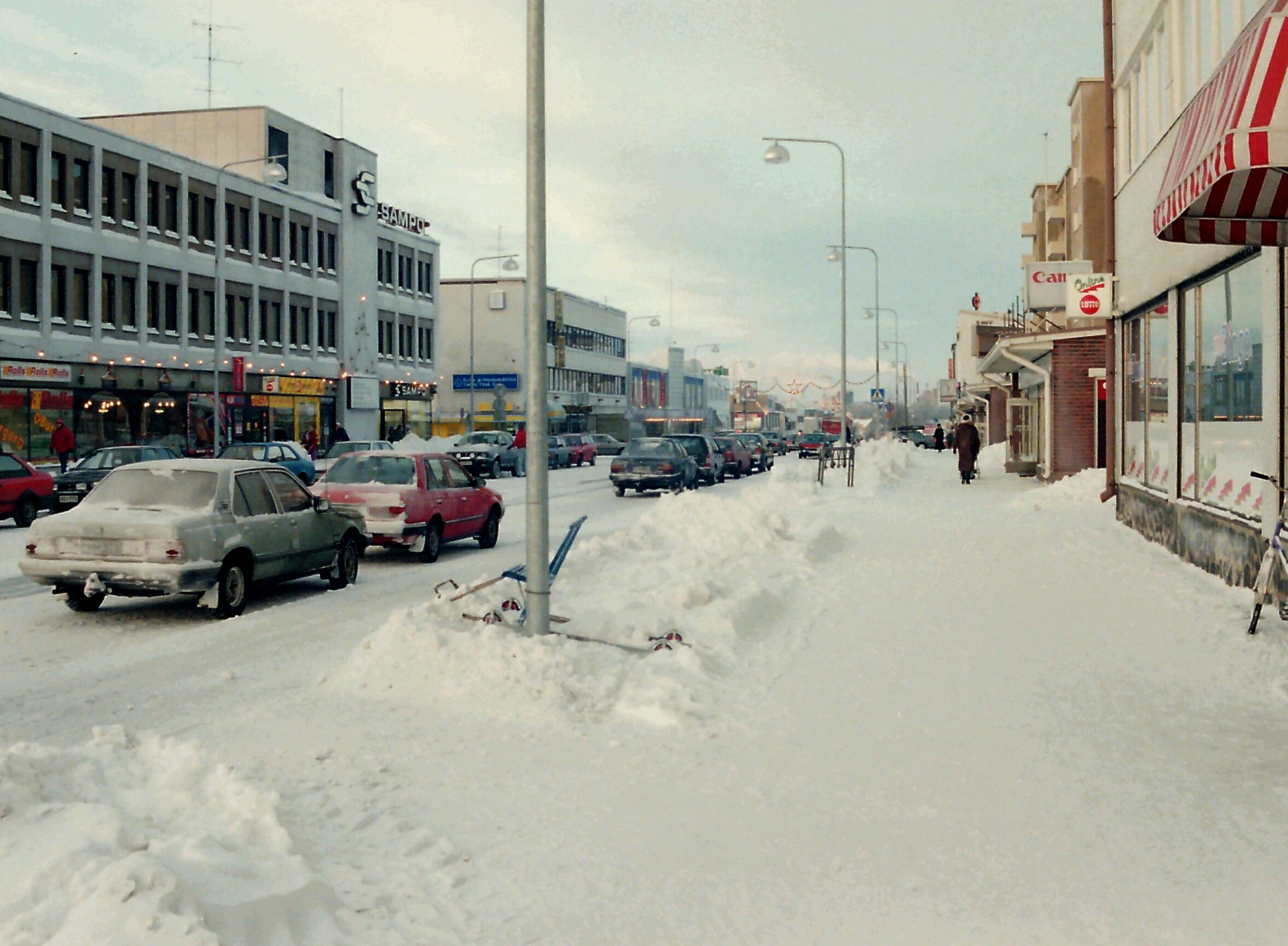 Valtakatu street in Kemi.